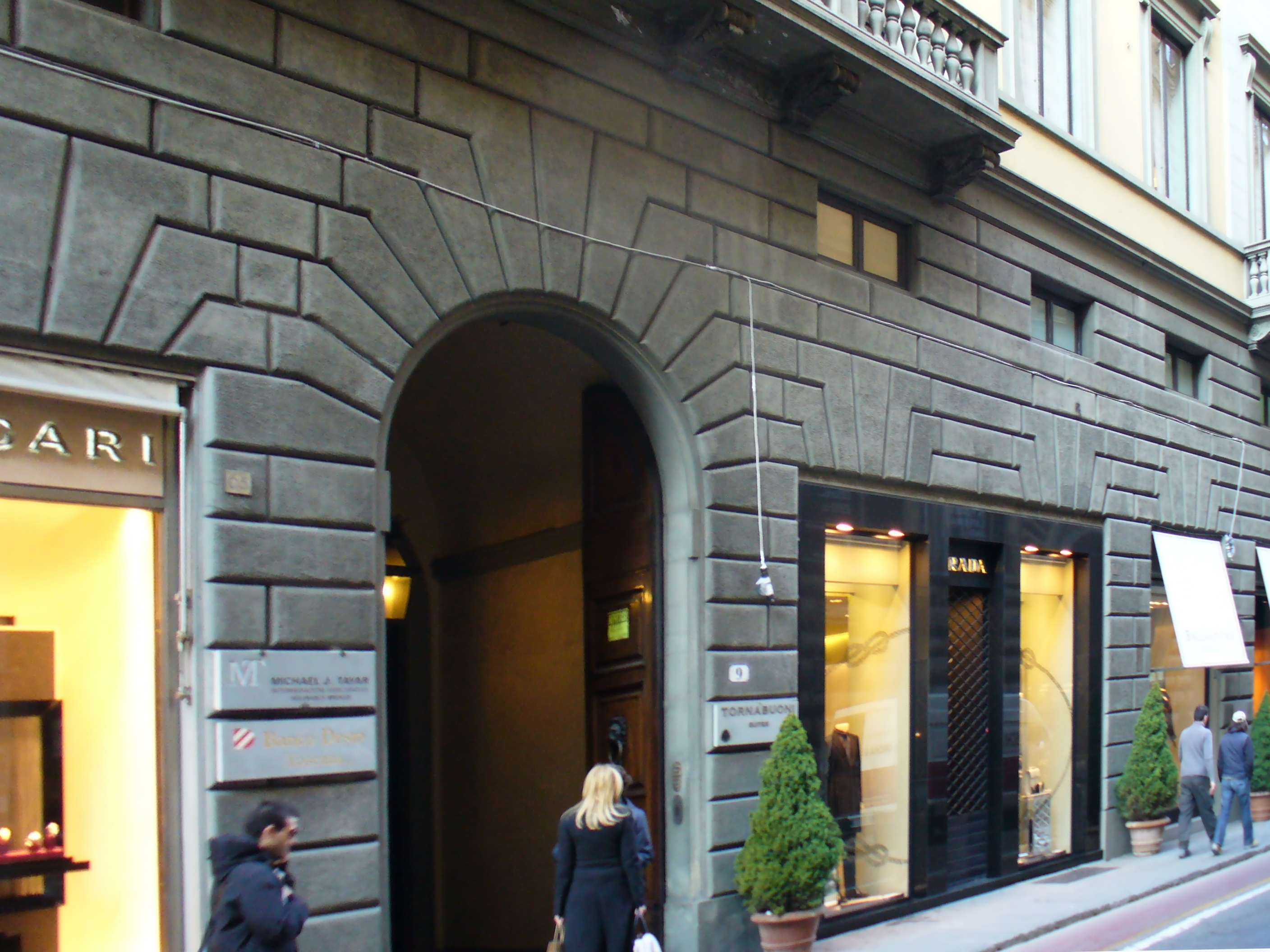 Via de' Tornabuoni